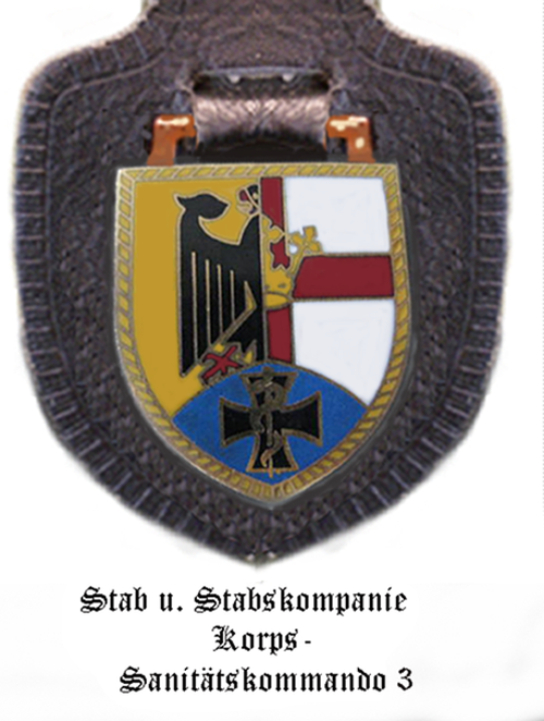 Internal coat of arms Stab u. Stabskompanie Korps-Sanitätskommando III (StKp SanKdo III) of the Bundeswehr (Armed Forces of the Federal Republic of Germany). → Remarks on naming and categorization scheme